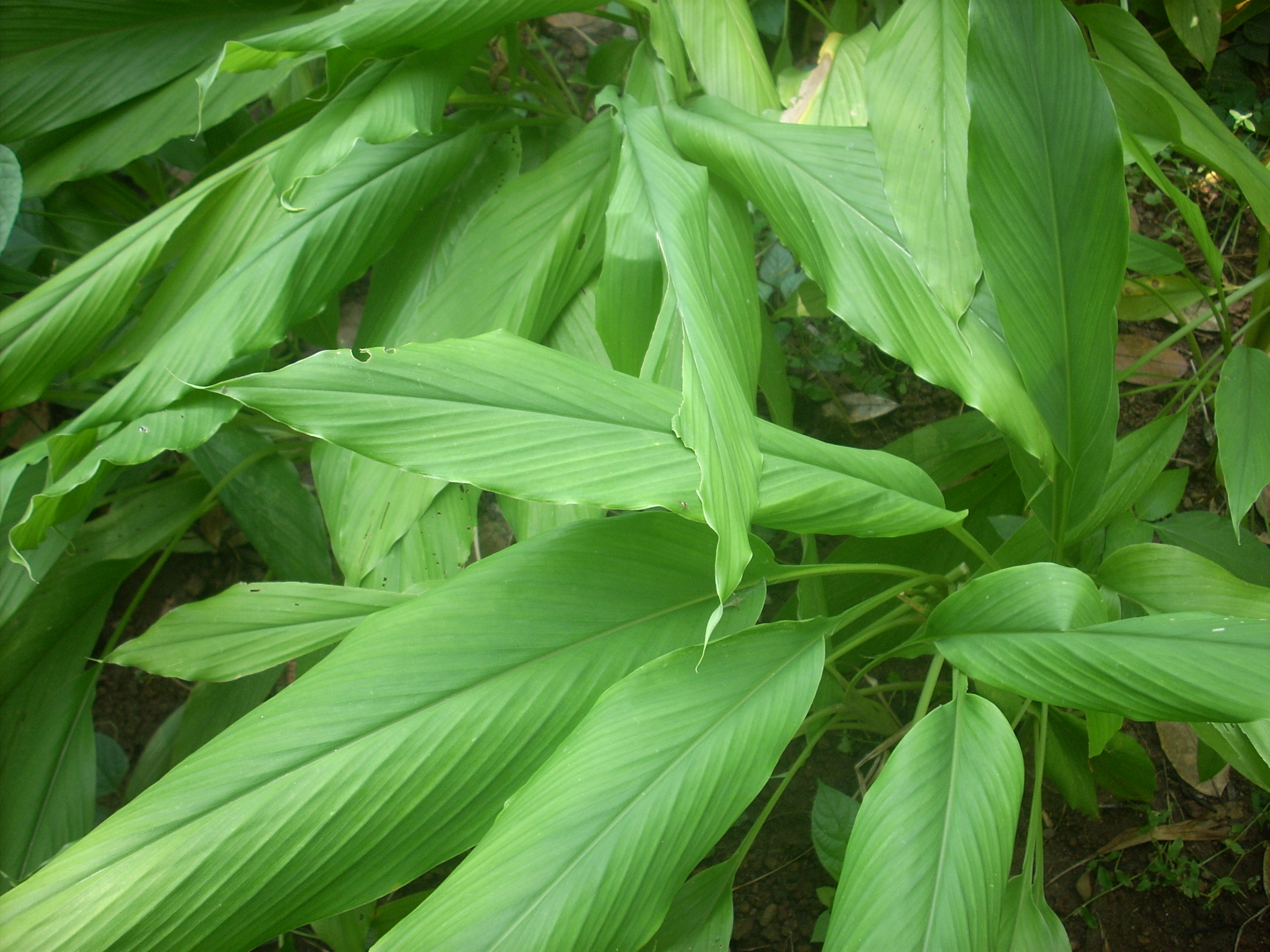 Curcuma longa